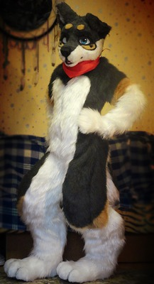 Valenok Ditigrade Fullsuit